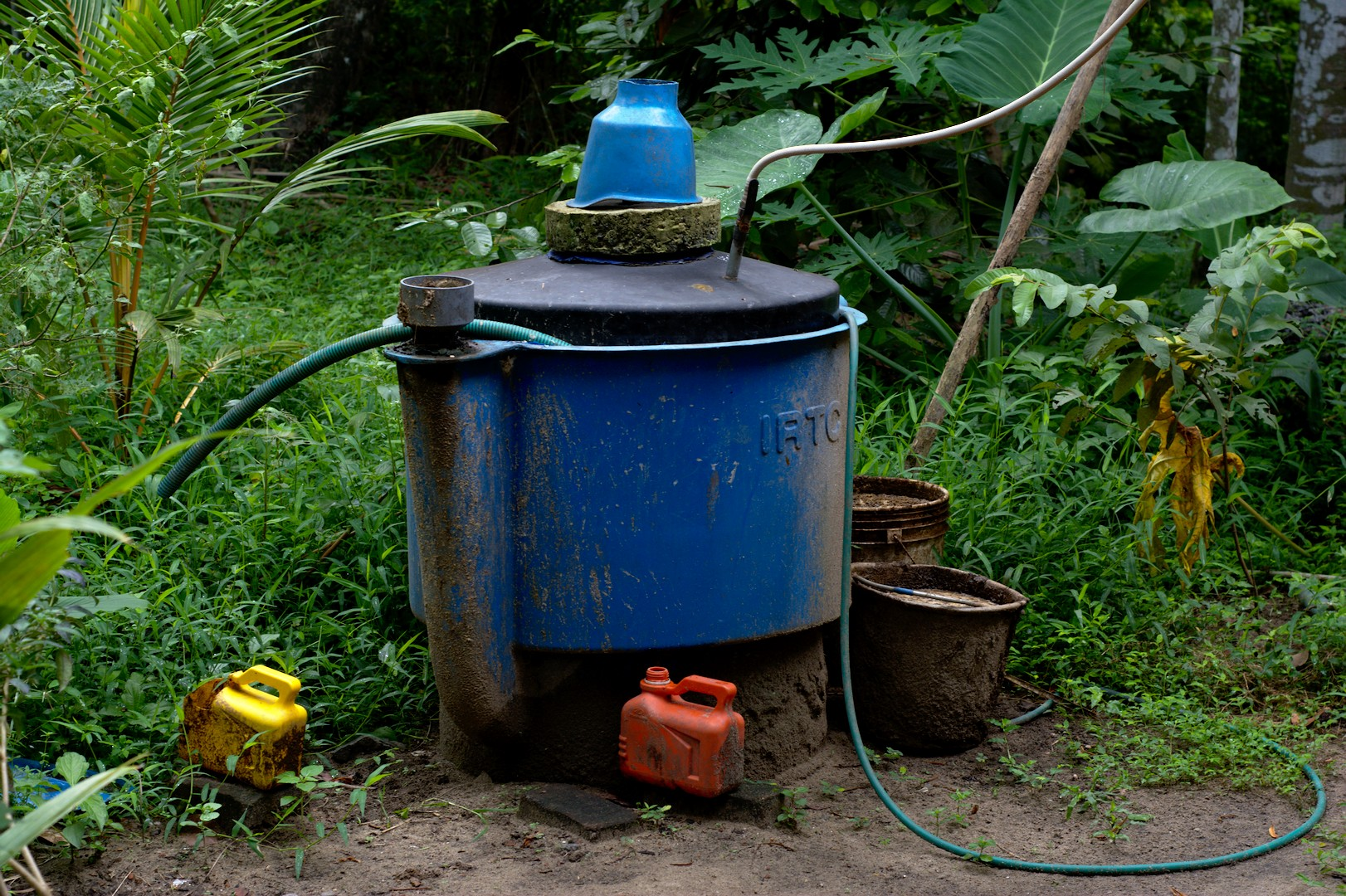 Portable Biogas plant in use at a Kerala home.